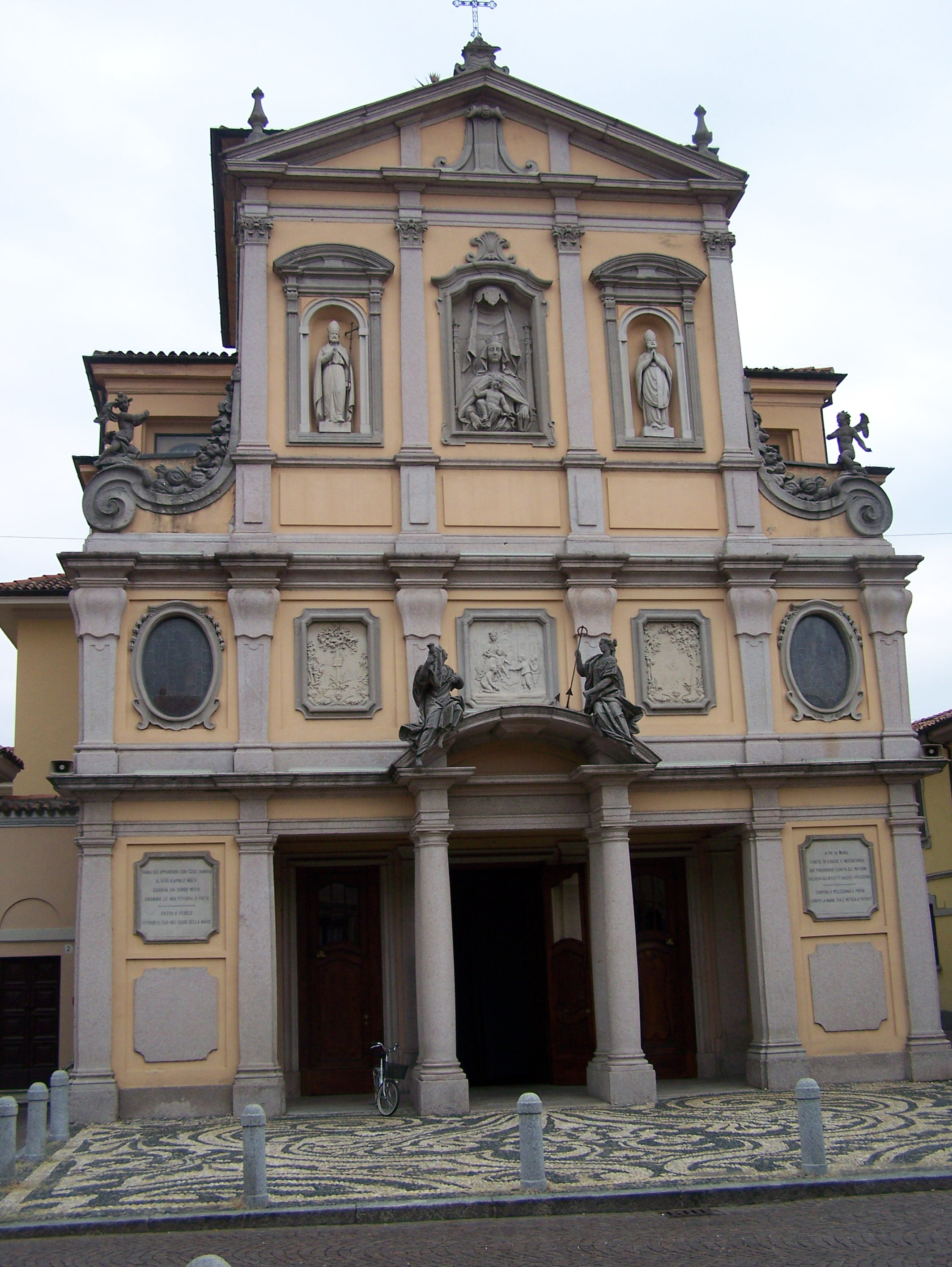 Sanctuary, fachade in Corbetta (MI) - Italy